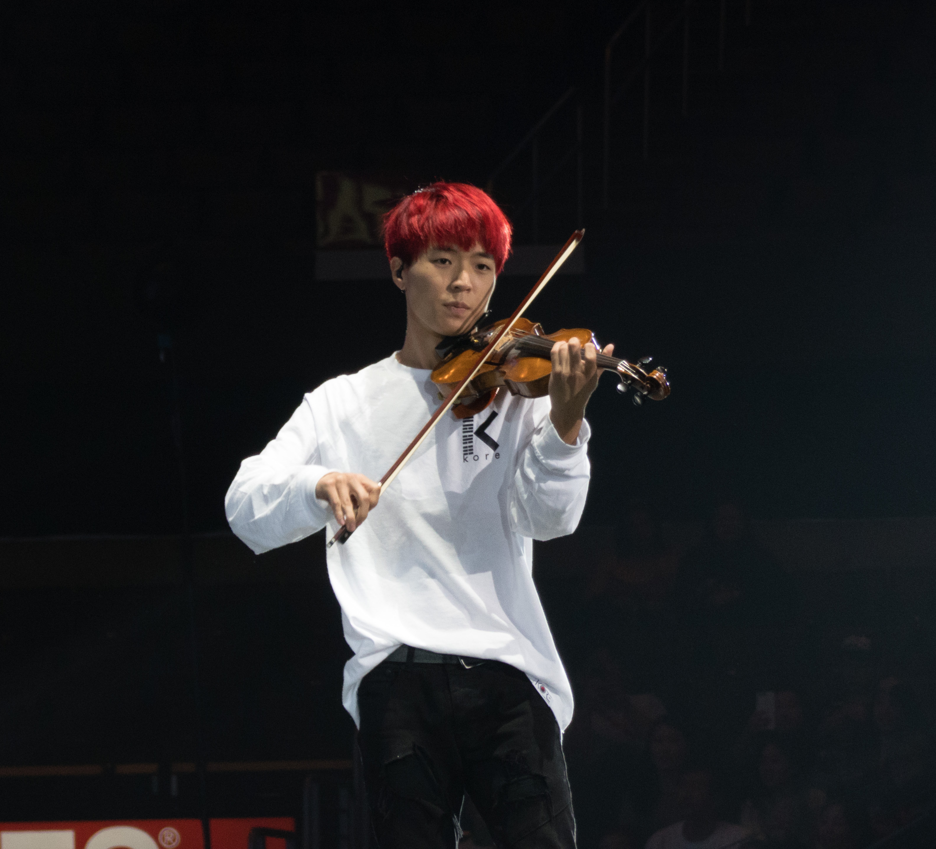 Jun Jung Ahn (aka Jun Curry Ahn) performing KCON LA 2016.